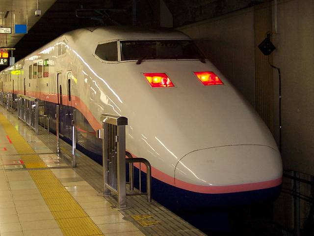 Shinkansen E1 Series Control Car (Taken in Ueno Station)